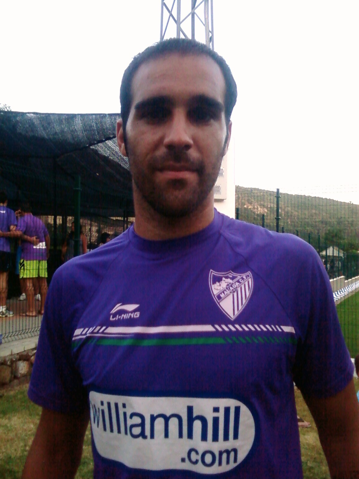 Jesús Gámez. Málaga CF's defender.